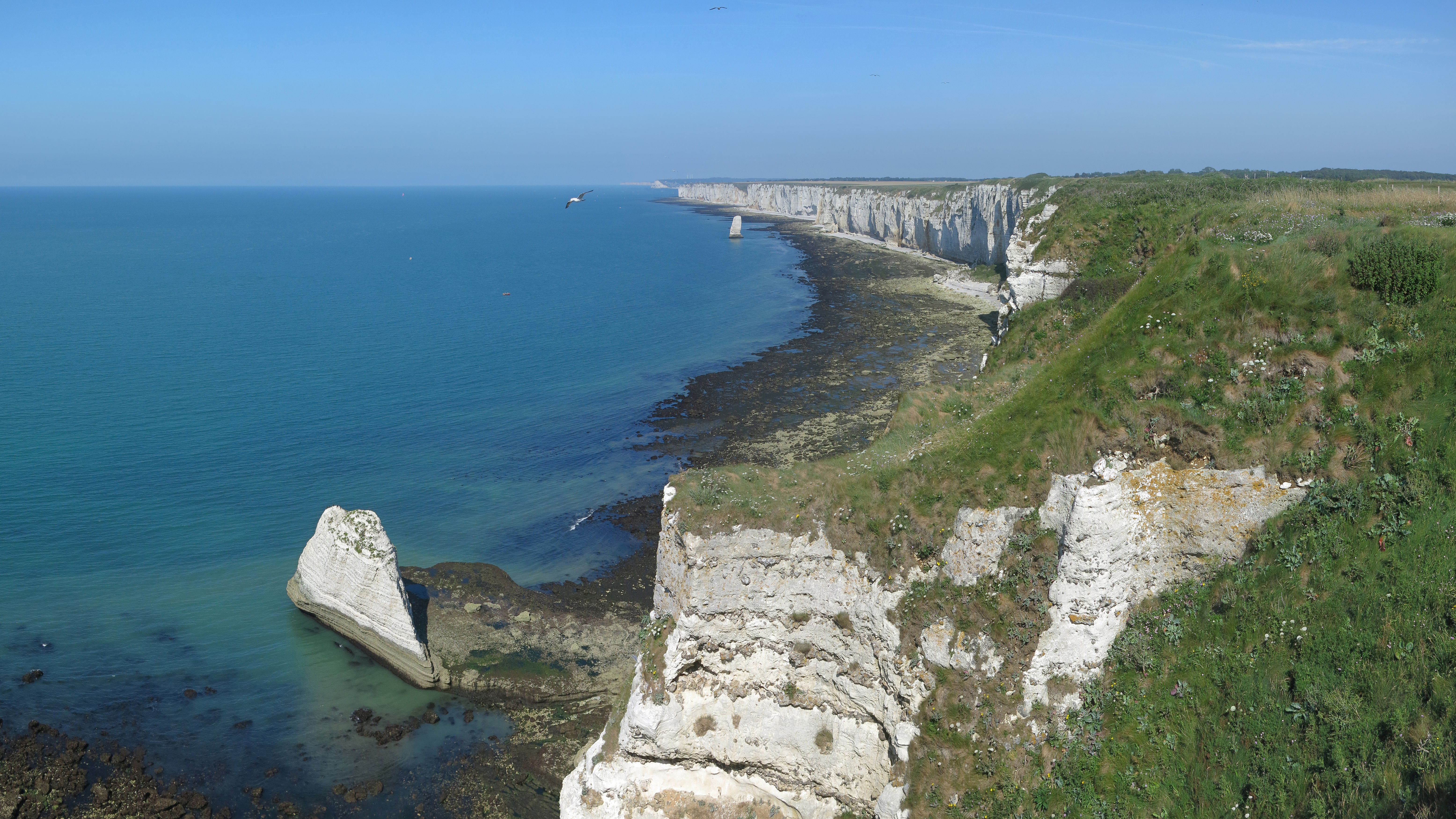 Alabaster coast at Roc Vaudieu, Normandy, France